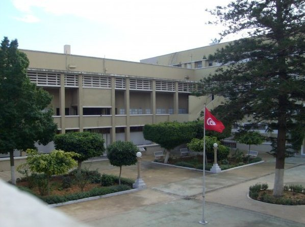 Lycée Pilote of Sfax Picture